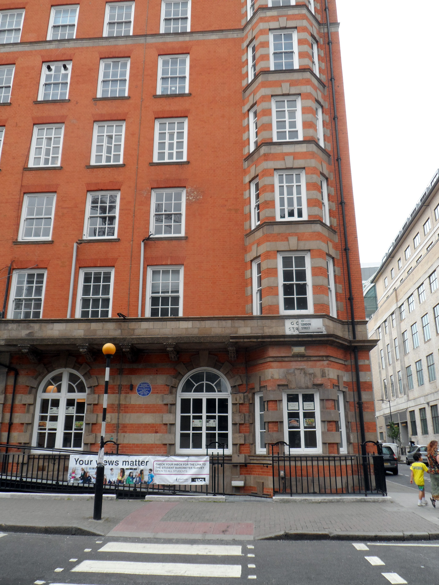 This building housed the London School of Tropical Medicine and the Hospital for Tropical Diseases 1920-1939 - Gordon Street, Kings Cross, London WC1H 0AY